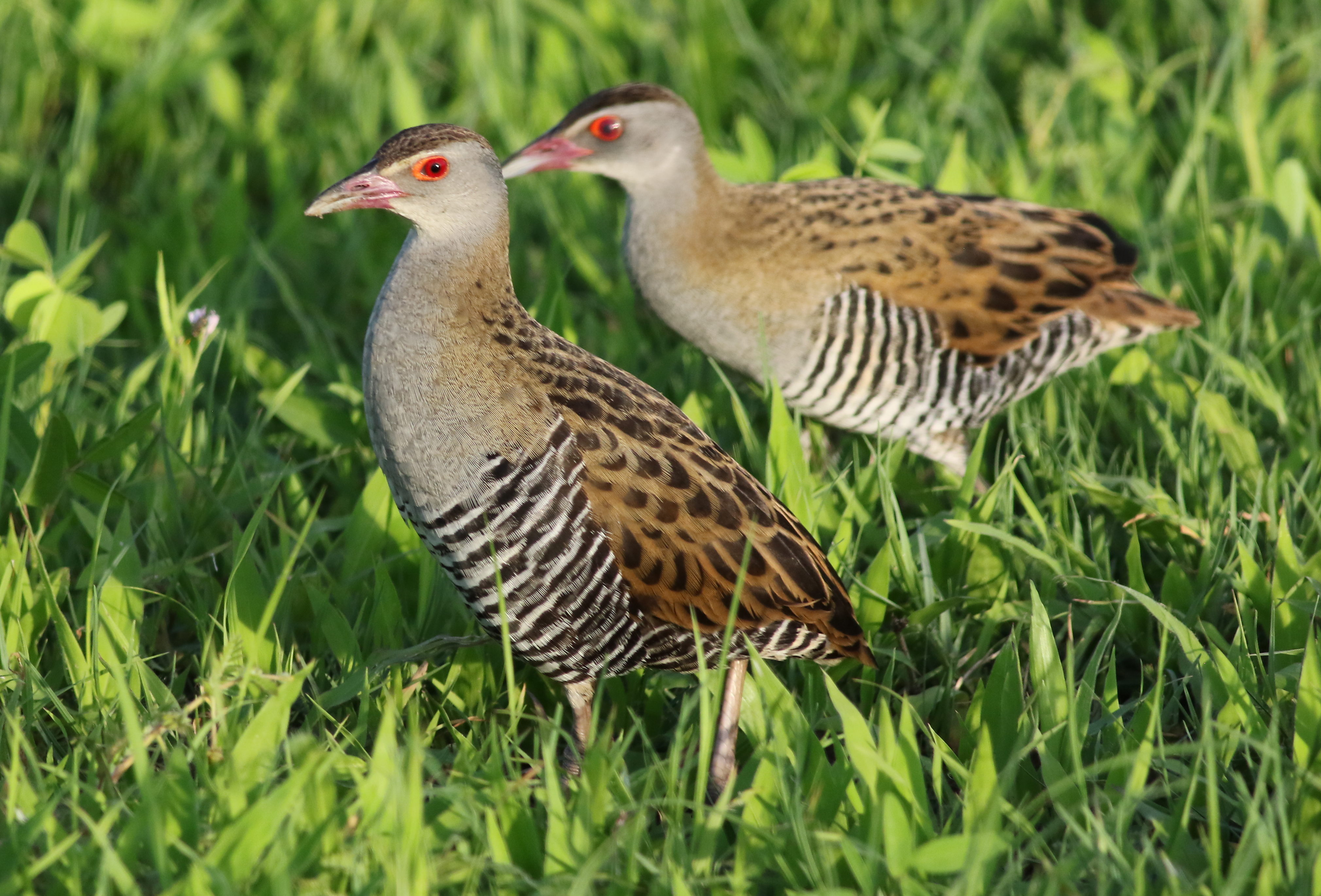 African crake, Crex egregia, Chobe National Park, Botswana